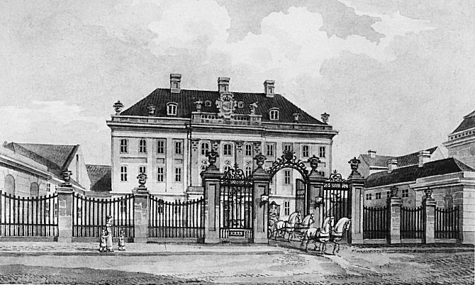 The building now known as Odd Fellow Palæet in Copenhagen, Denmark